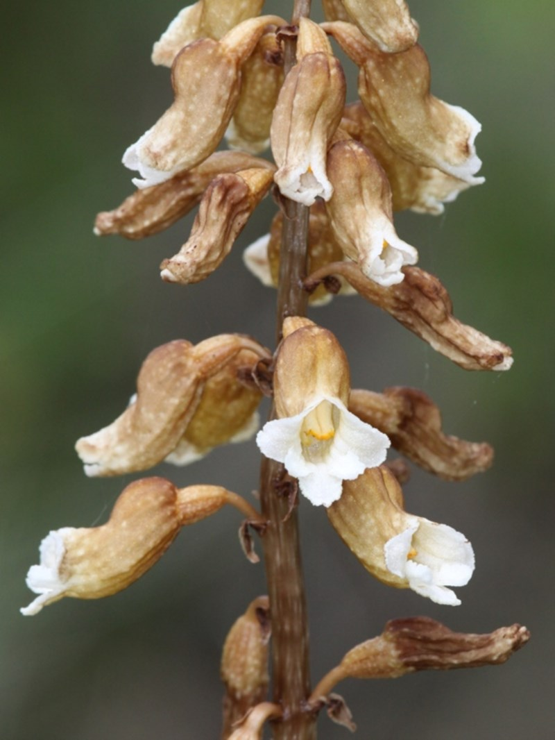 Gastrodia entomogama growing in the Namadgi National Park